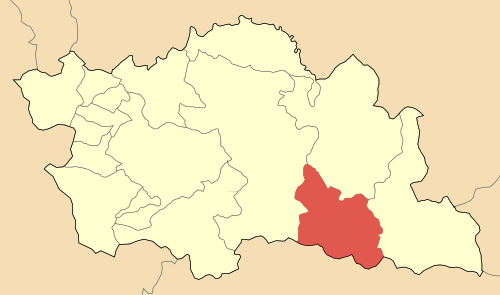 Locator map of Hasion municipality (Δήμος Χασίων) at Grevena perfecture, Greece.